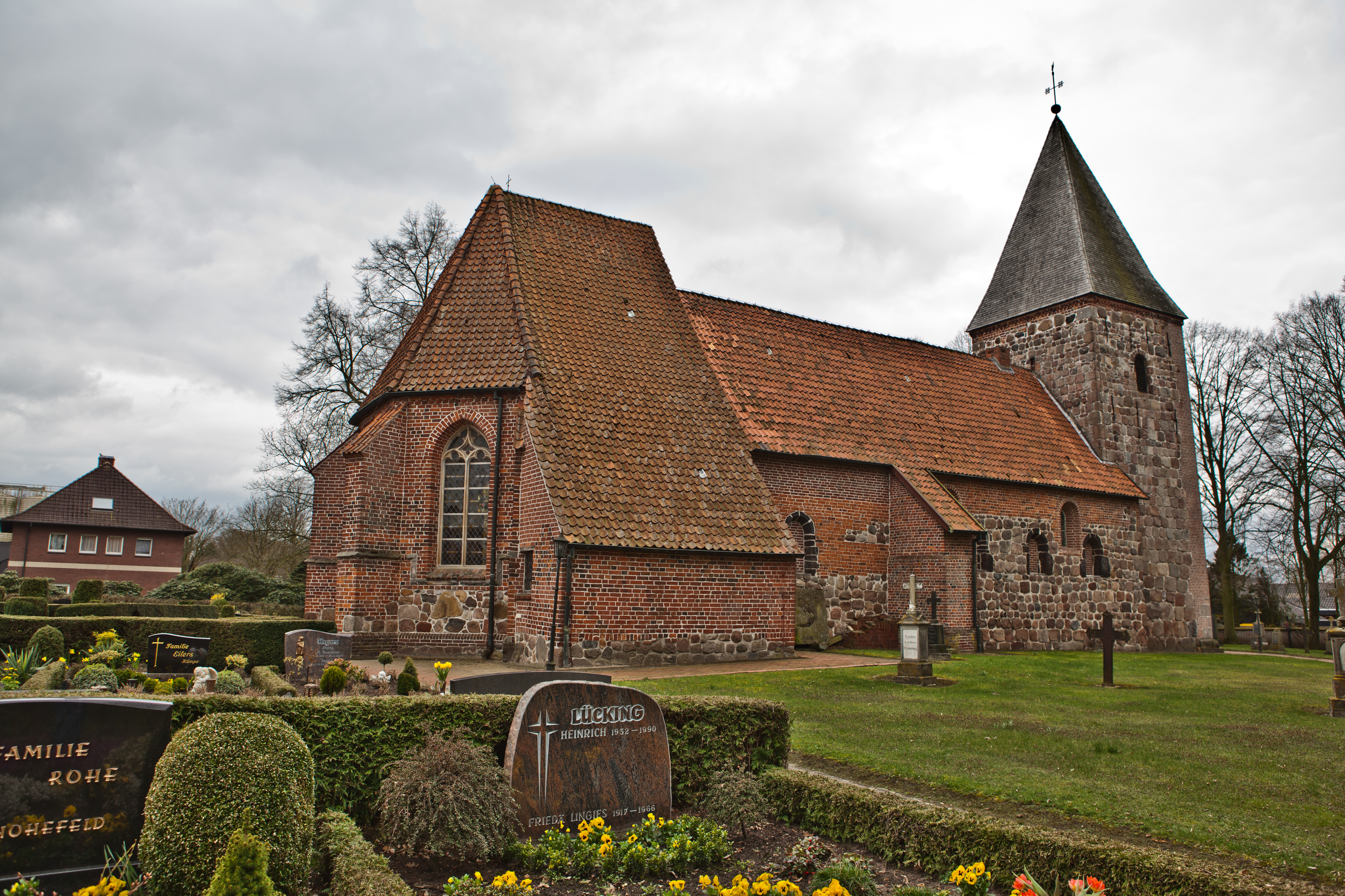 Church St. Vitus in Altenoythe, Germany.